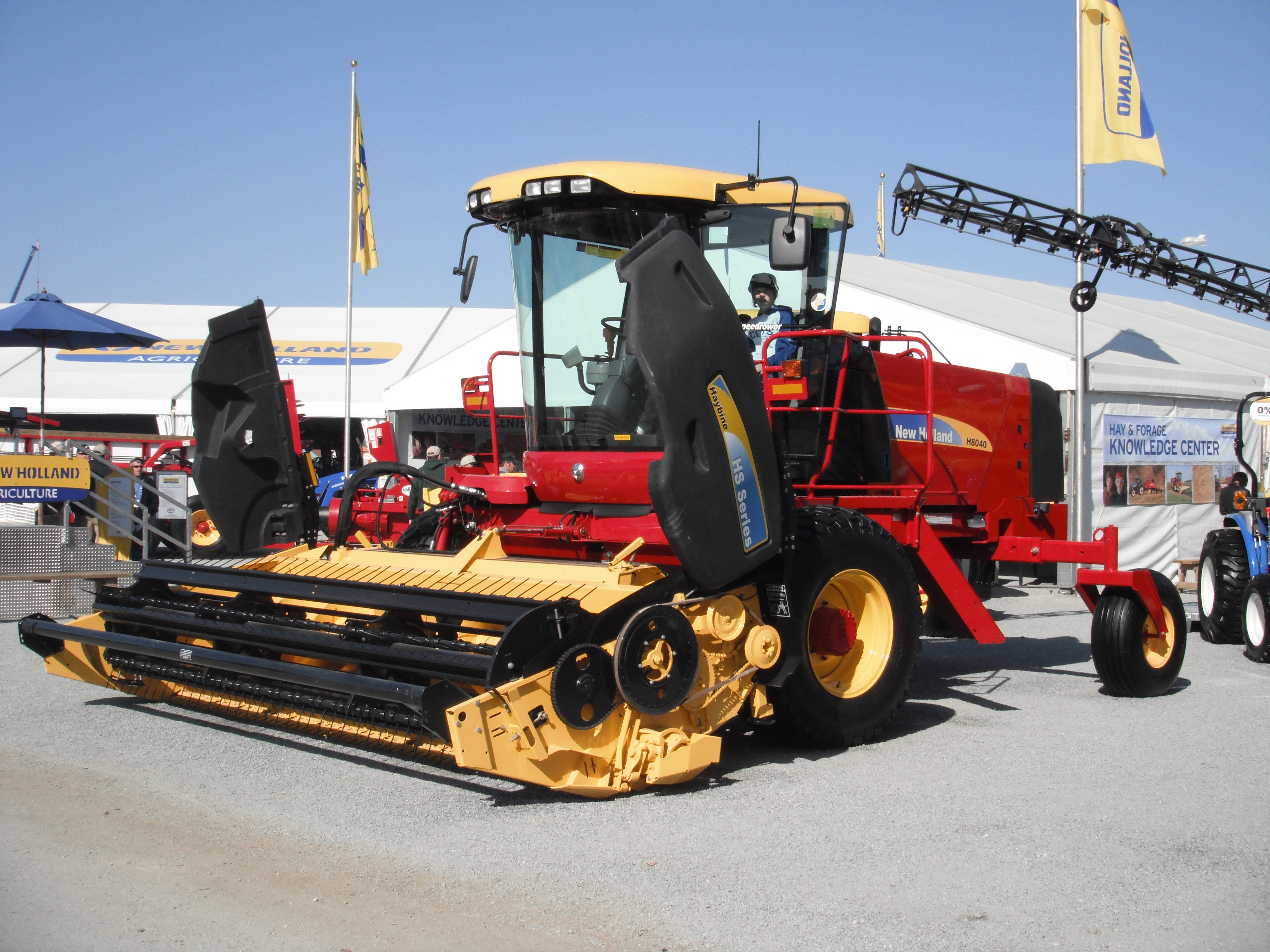 A self-propelled swather by New Holland at World Ag Expo 2011, Haybine Model H8040; notice the covers on both end of the implement were raised to show the gears and pulleys.